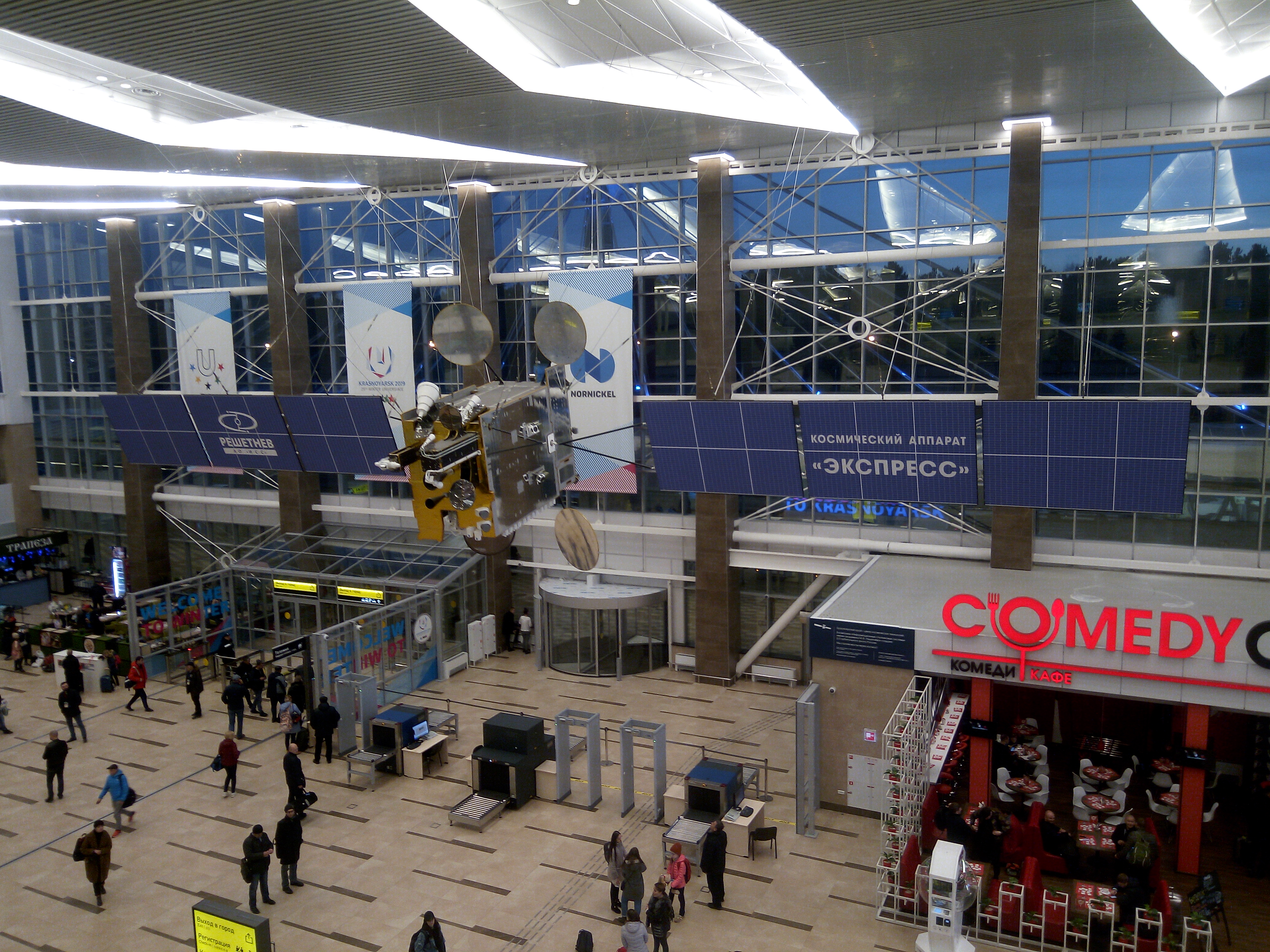 Krasnoyarsk International Airport interior